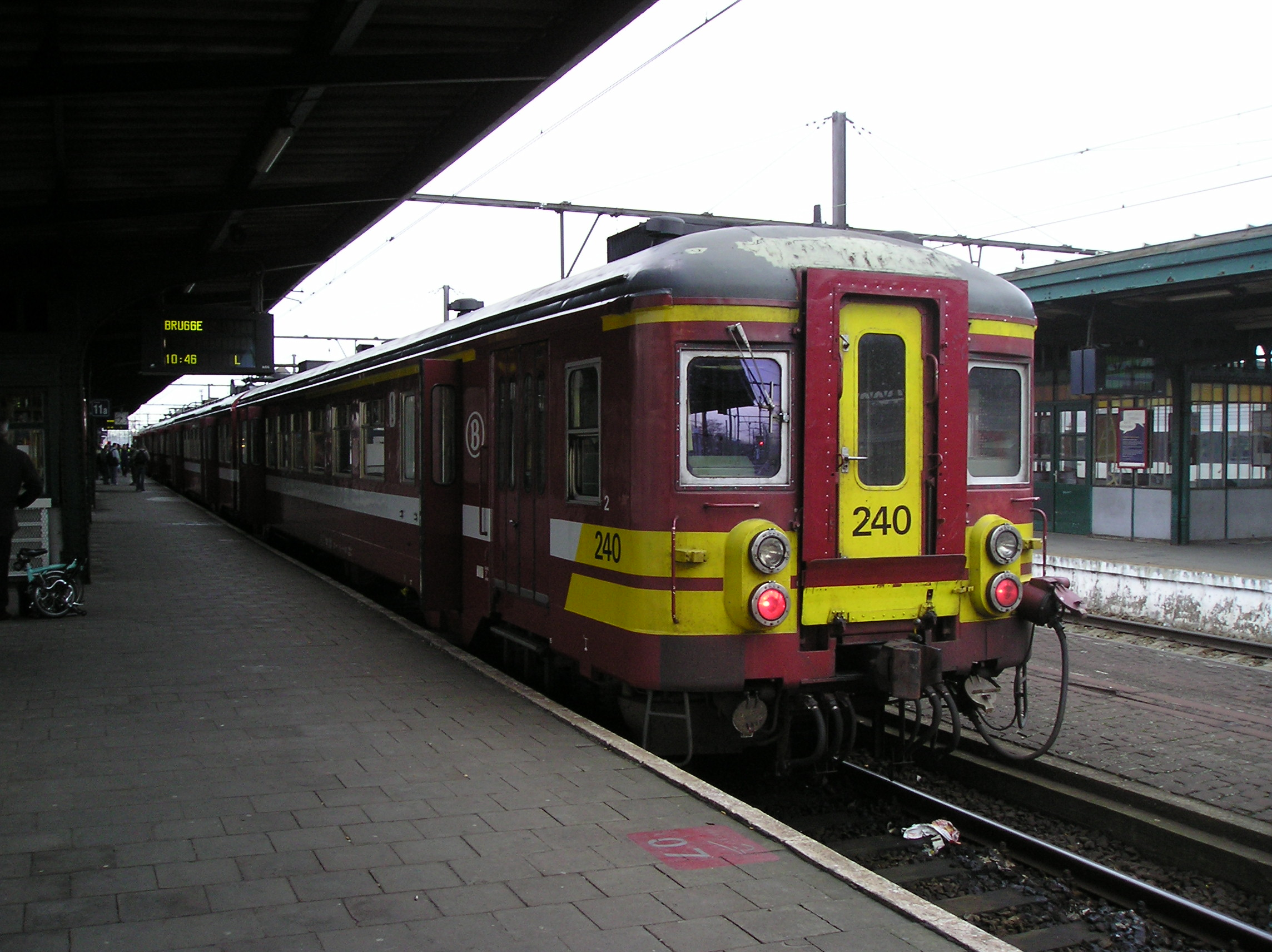 Classical electric multiple unit is a nickname of some similar series (series AM39, AM50, AM53, AM54, AM55, AM56, AM62, AM66, AM73) of Belgian EMUs, produced between 1939 and 1979 (about 500 were made), and in use used until now. This particular one was photogrphed in Sint-Pieters train station in Ghent